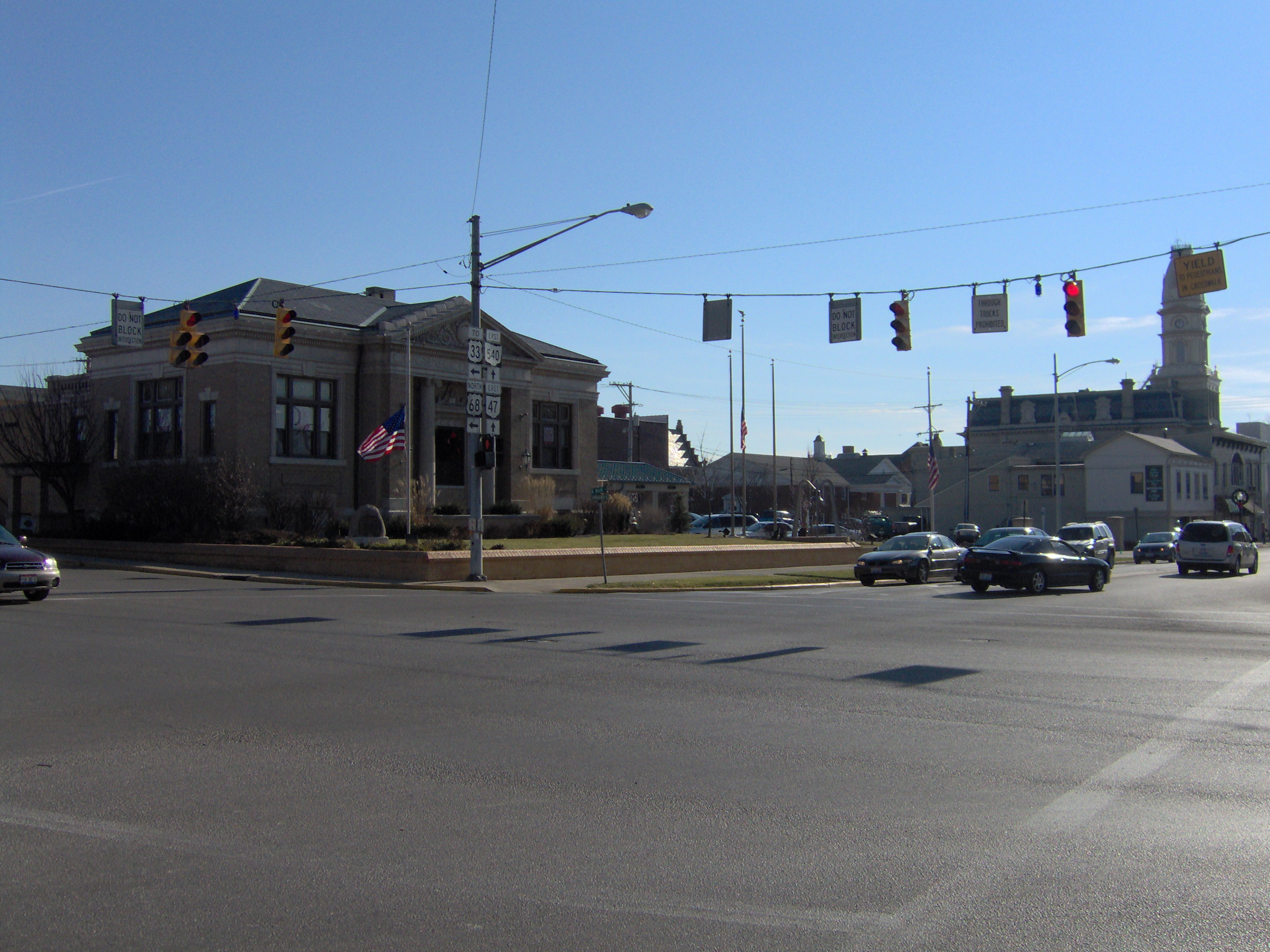 Downtown Bellefontaine, Ohio, United States, at the intersection of U.S. Route 68 and State Route 47. Flags are at half-staff due to the recent death of Gerald Ford.